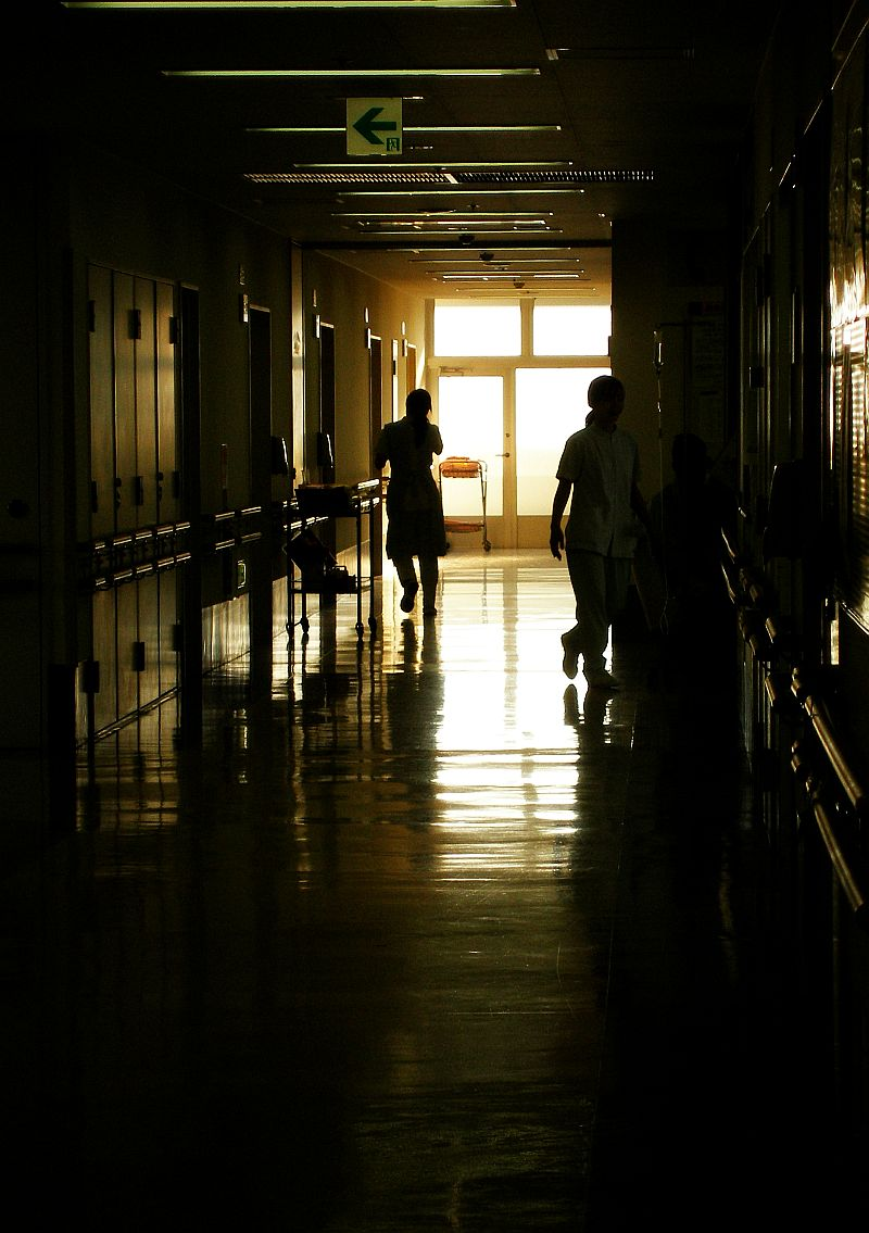 ...where my mother is now.